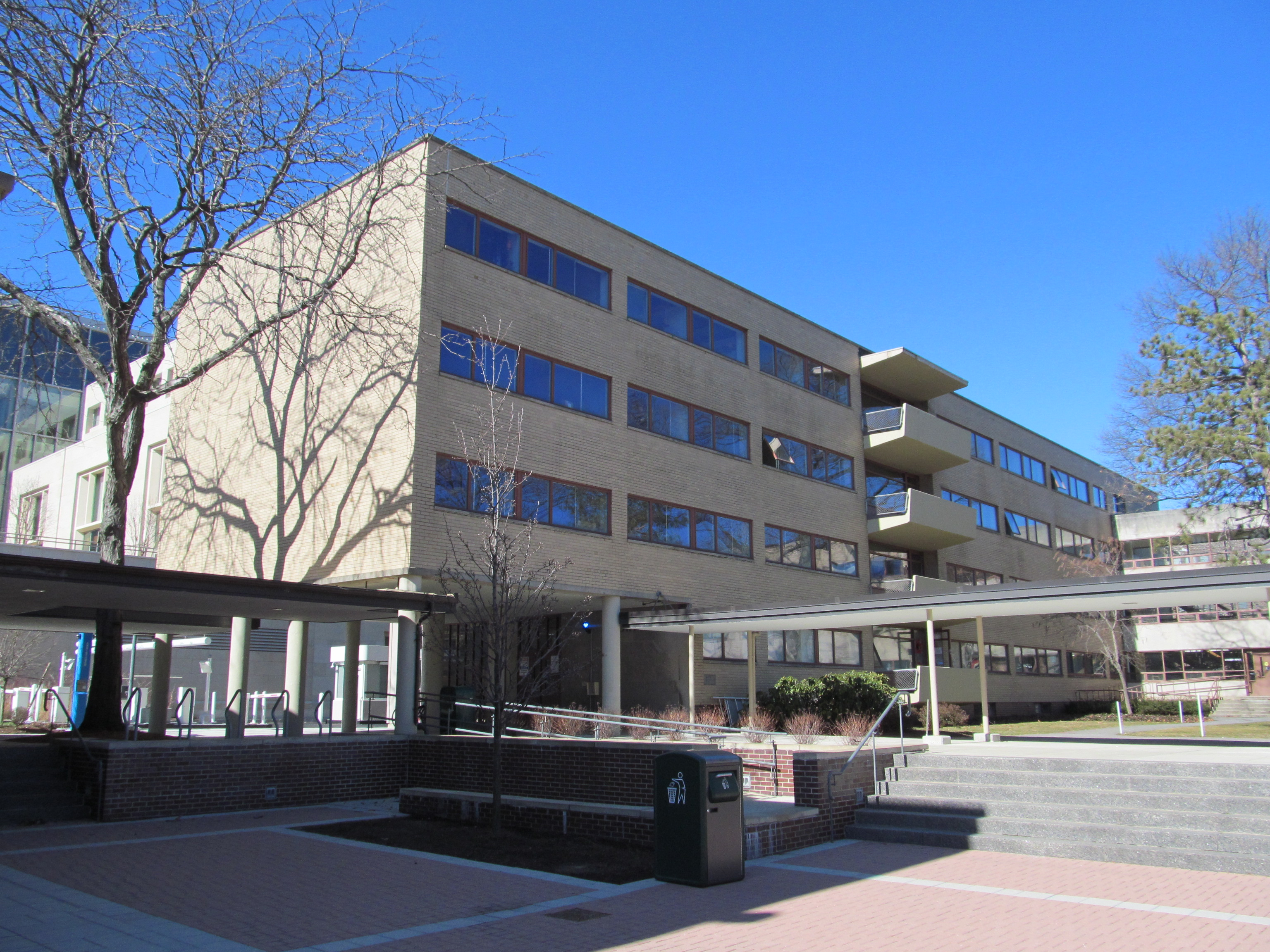 Story Hall, Harvard University, Cambridge Massachusetts